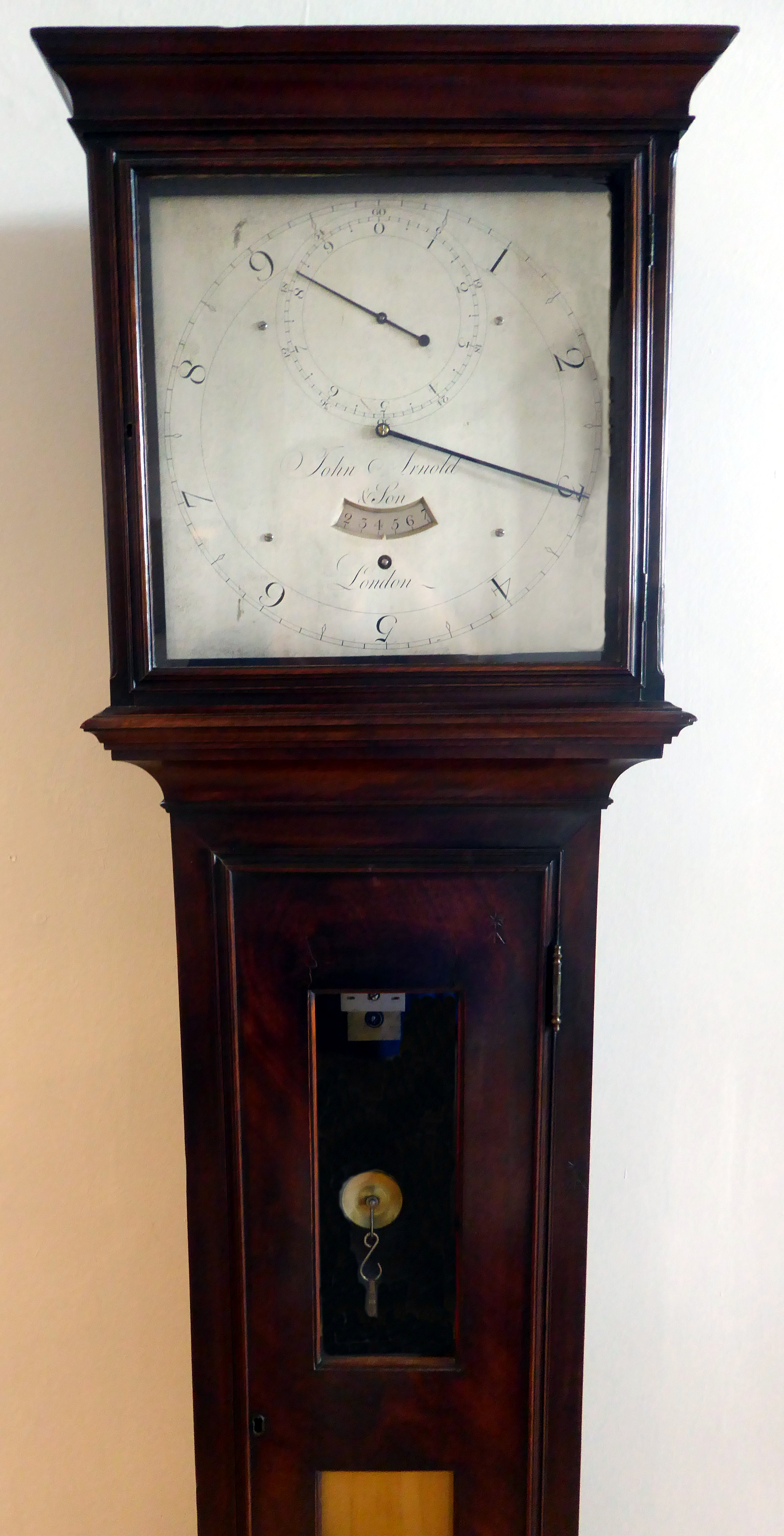 One of the two known surviving sidereal angle clocks in the world. It was made for Sir George Augustus William Shuckburgh. It is on display in the Royal Observatory, Greenwich, London.